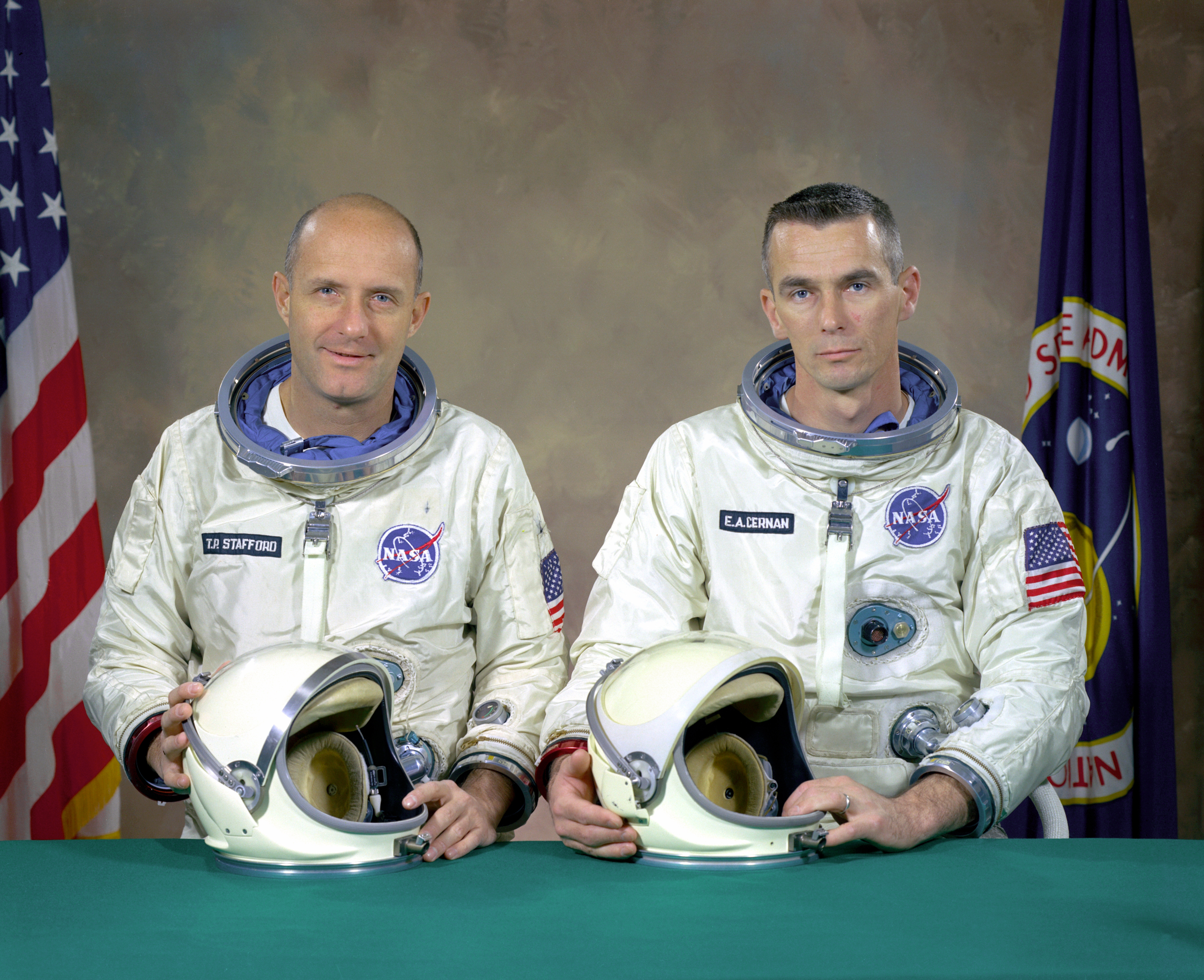 The Gemini 9 backup crew members are, Commander, Thomas P. Stafford and pilot Eugene A. Cernan. The back-up crew became the prime crew when on February 28, 1966 the prime crew for the Gemini 9 mission were killed when their twin seat T-38 trainer jet aircraft crashed into a building during a landing approach in bad weather.